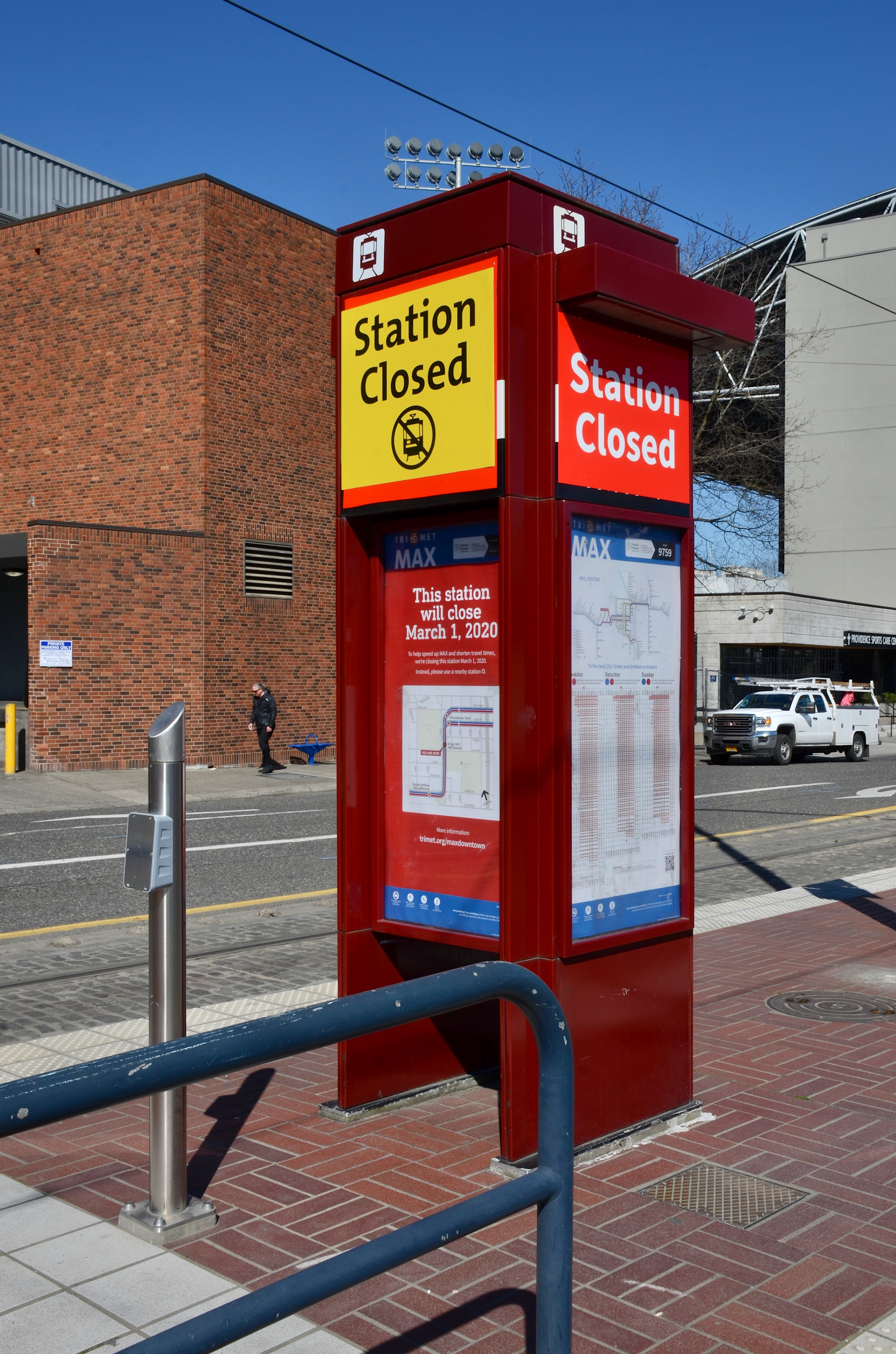 An information 'pylon' at the Kings Hill/Southwest Salmon Street MAX station, on SW 18th Avenue at SW Salmon Street in Portland, Oregon, 15 days after the station's closure on a one-year trial basis. In the left foreground, the Hop Fastpass reader has been removed from the metal post which had held it.